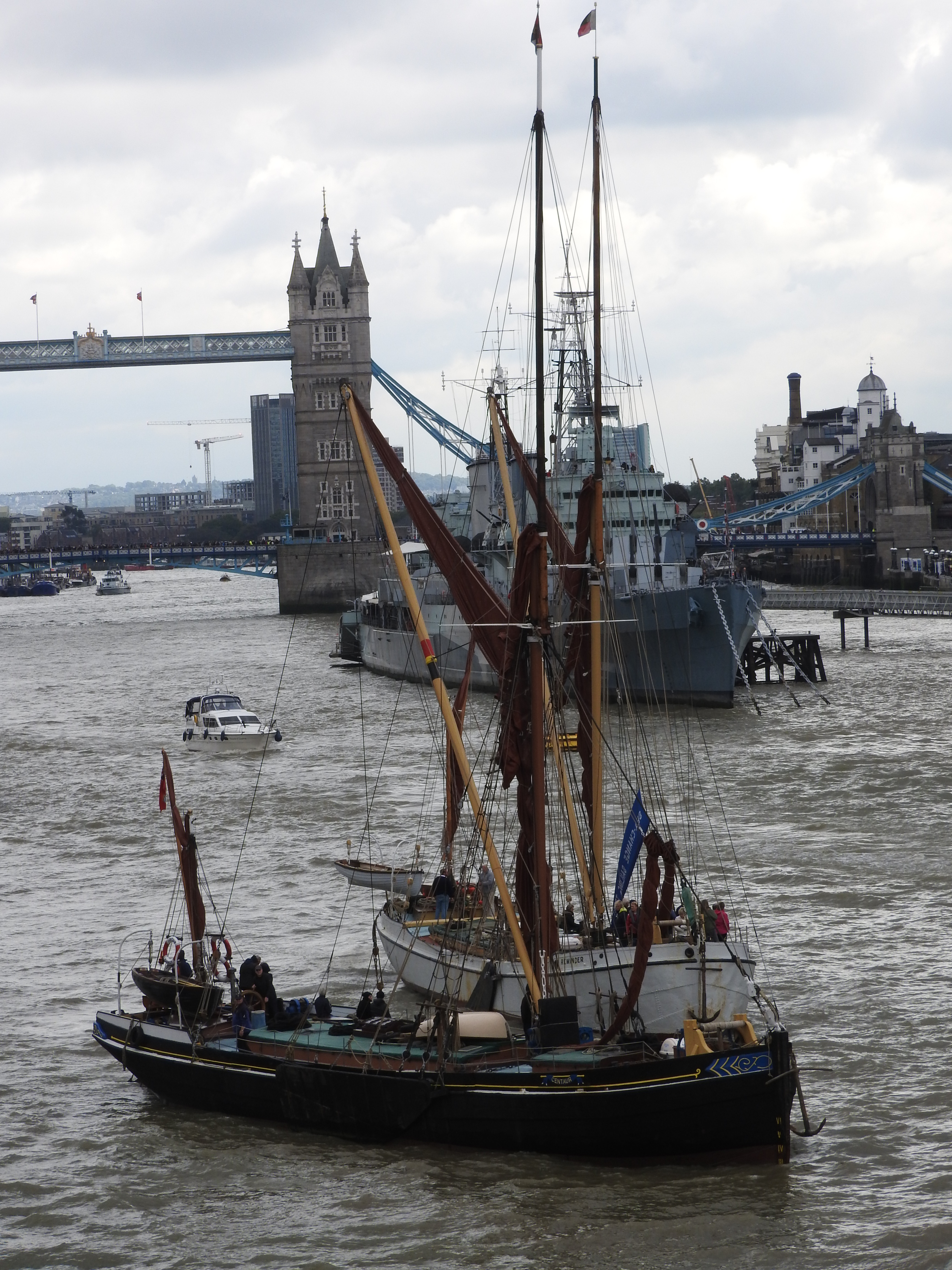 The Thames barge parade 2017. 16 September 2017. Ten barges sailed from West India Docks to Tower Bridge. At noon (BST), Tower Bridge opened and the barges paraded in line into the Pool of London, where they held position against the ebbing tide until 12.45 when the bridge reopened and barges turned and made out to South Quays.